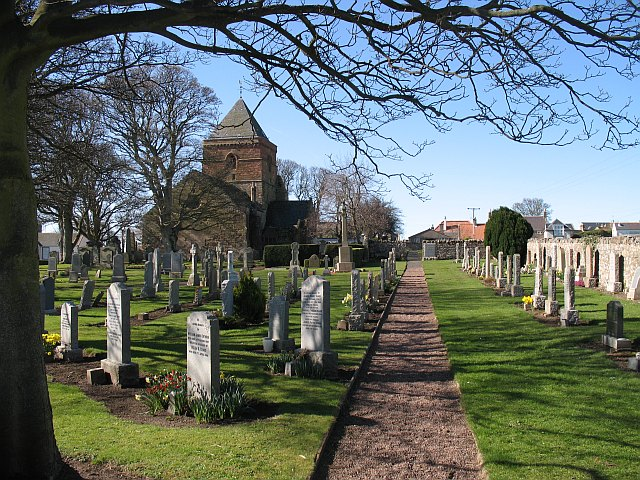 Whitekirk The churchyard.